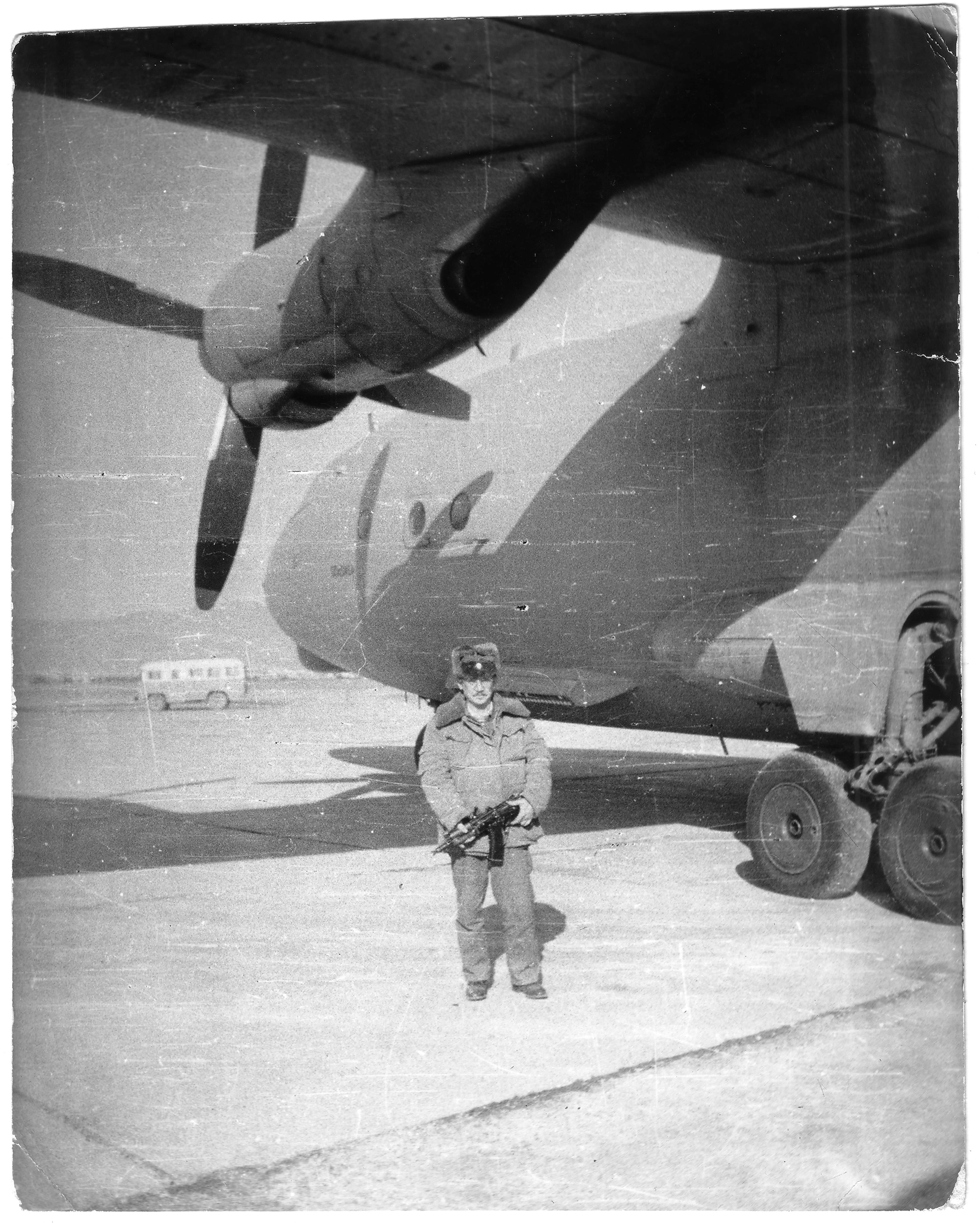 Soviet Army in Afgan, 1987. An-12. VVP Kabul